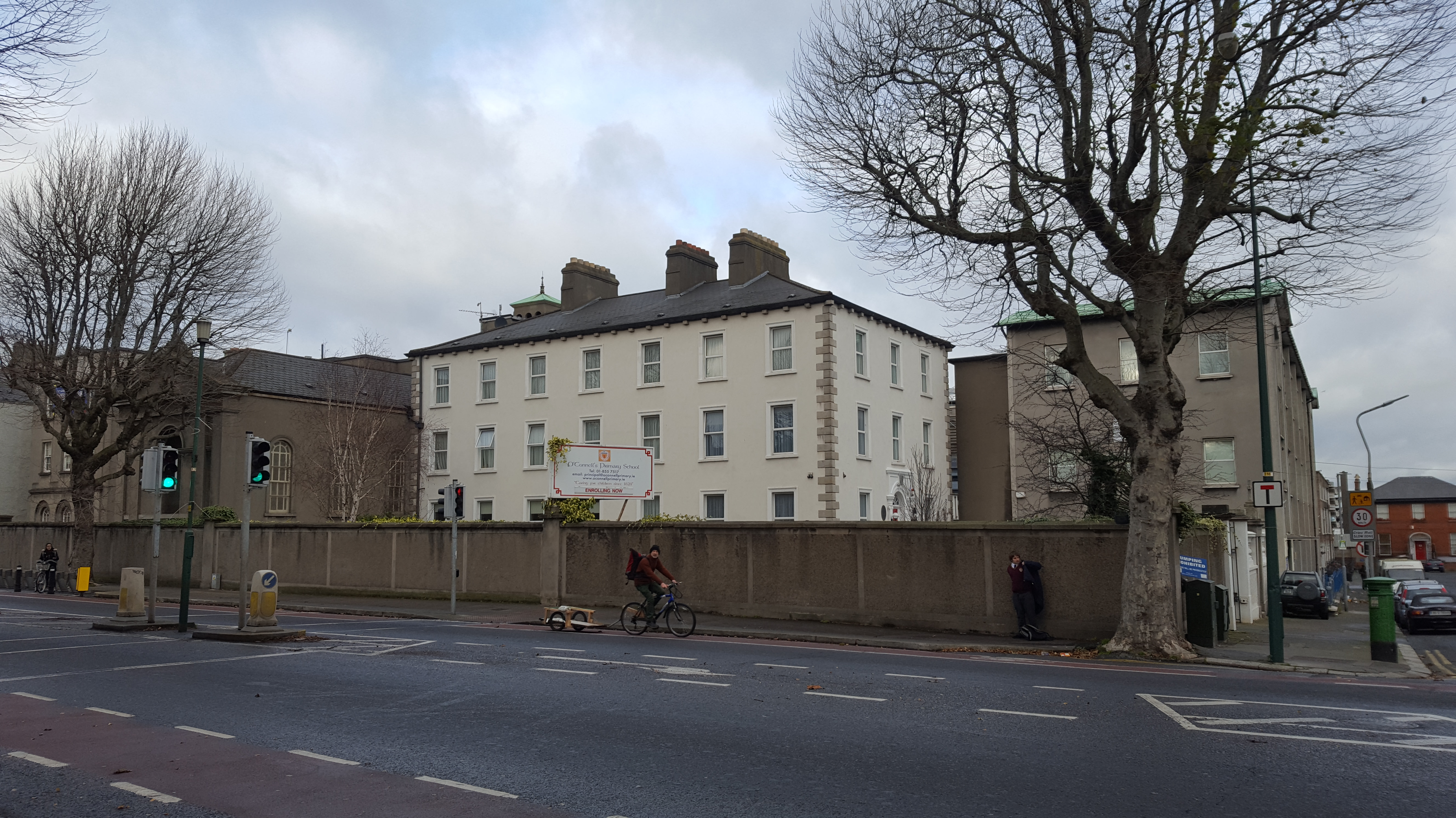 Matt Talbot was enrolled in O'Connell School for the academic year of 1867 - 1868.